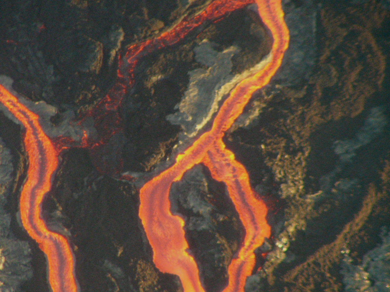 A lava flow from the Kilauea Caldera, Hawaii, USA. Taken by me on my vacation in December 2005.